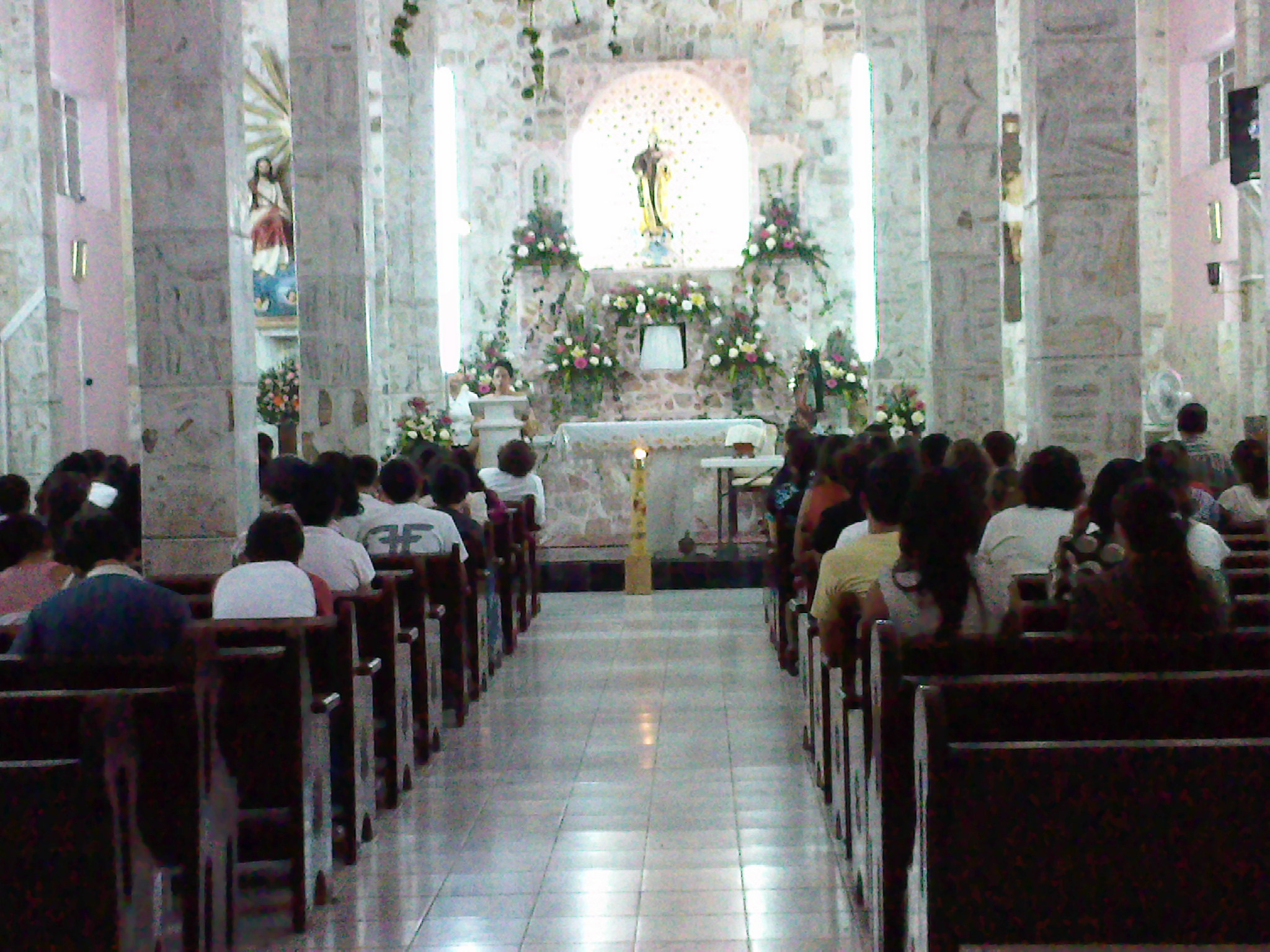 Confirmation Preparation